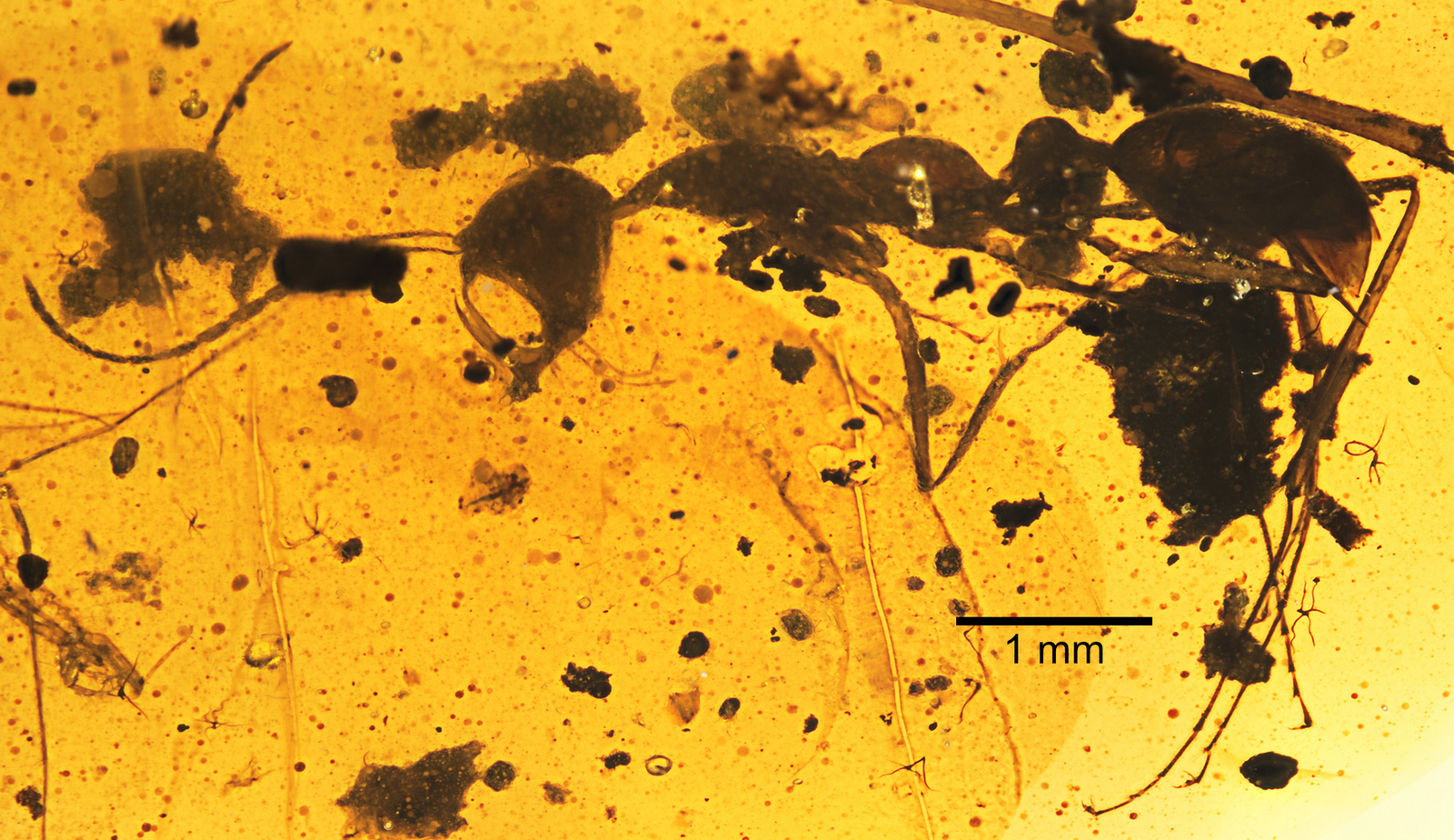 Profile view of a Haidomyrmex cerberus worker. Burmese amber, Earliest Cenomanian; Noije Bum Village, near Myitkyina, Kachin State, Myanmar Beijing Normal University, Beijing, China. Specimen CNU-HYM-MA2019051 Ant web specimen FANTWEB00016